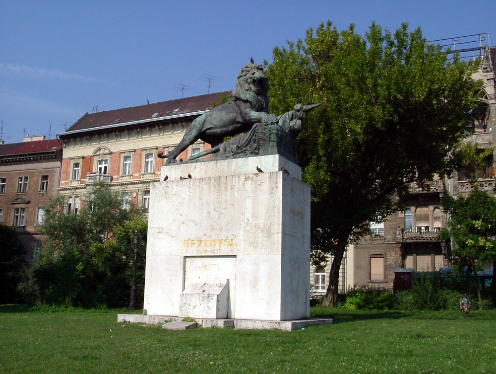 Monument of the Przemysl Fort Victims. Budapest, Hungary